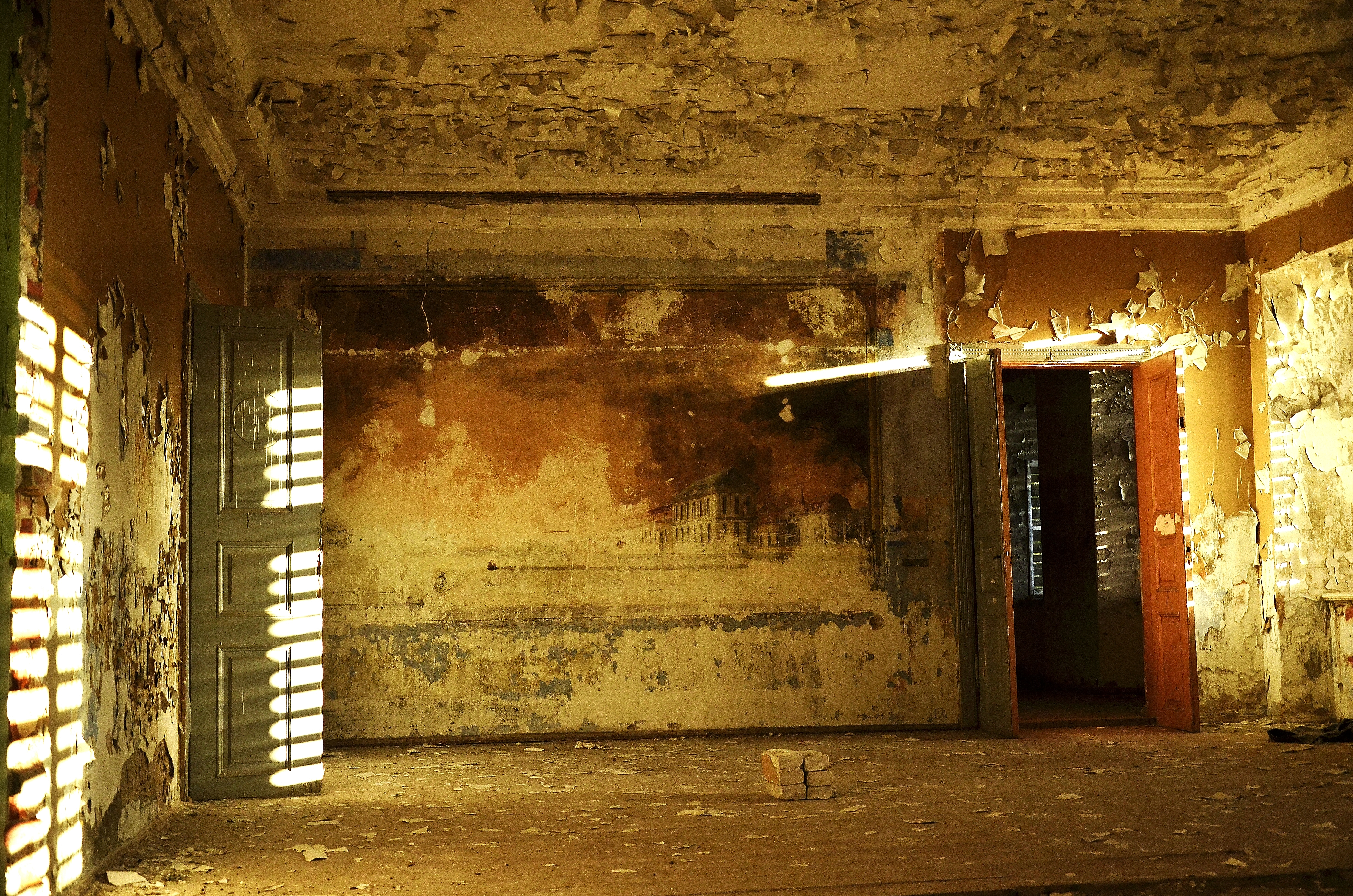 Mural painting in the Purila manor depicting landlord Friedrich Gustav von Helffreich's (1759-1845) townhouse in Tallinn. Rapla county, Estonia.